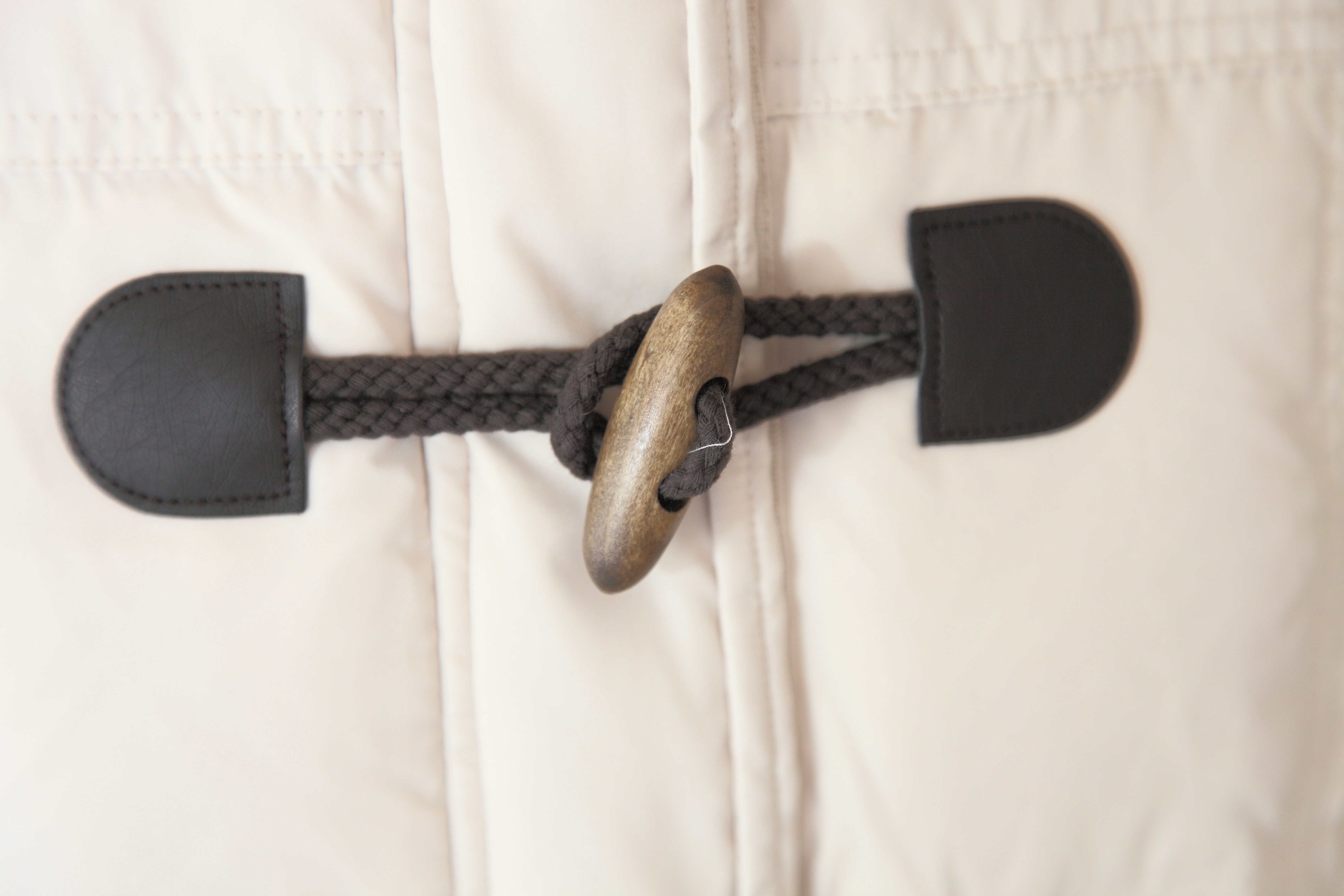 A toggle